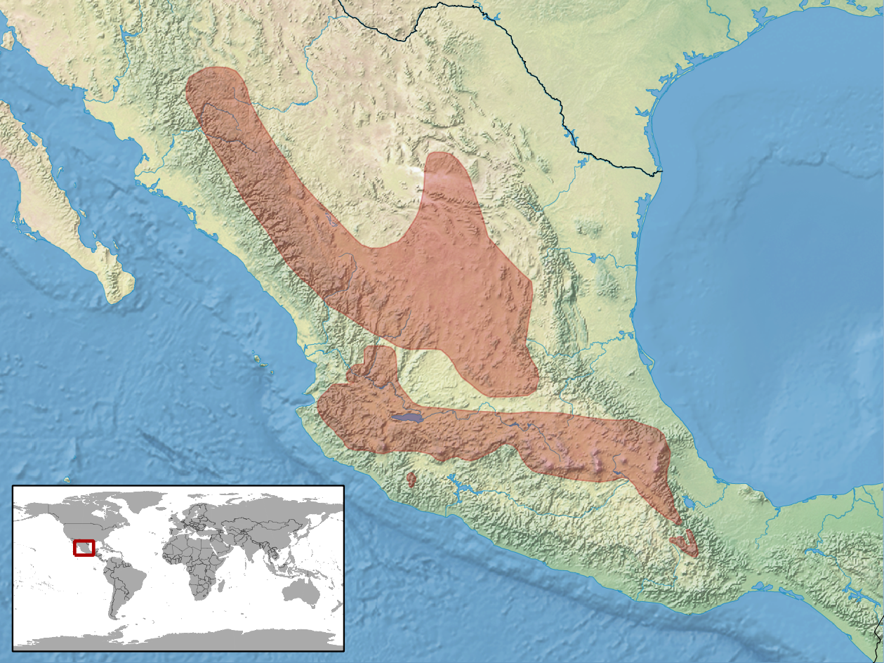 geographic distribution of Barisia imbricata (Native: Mexico)